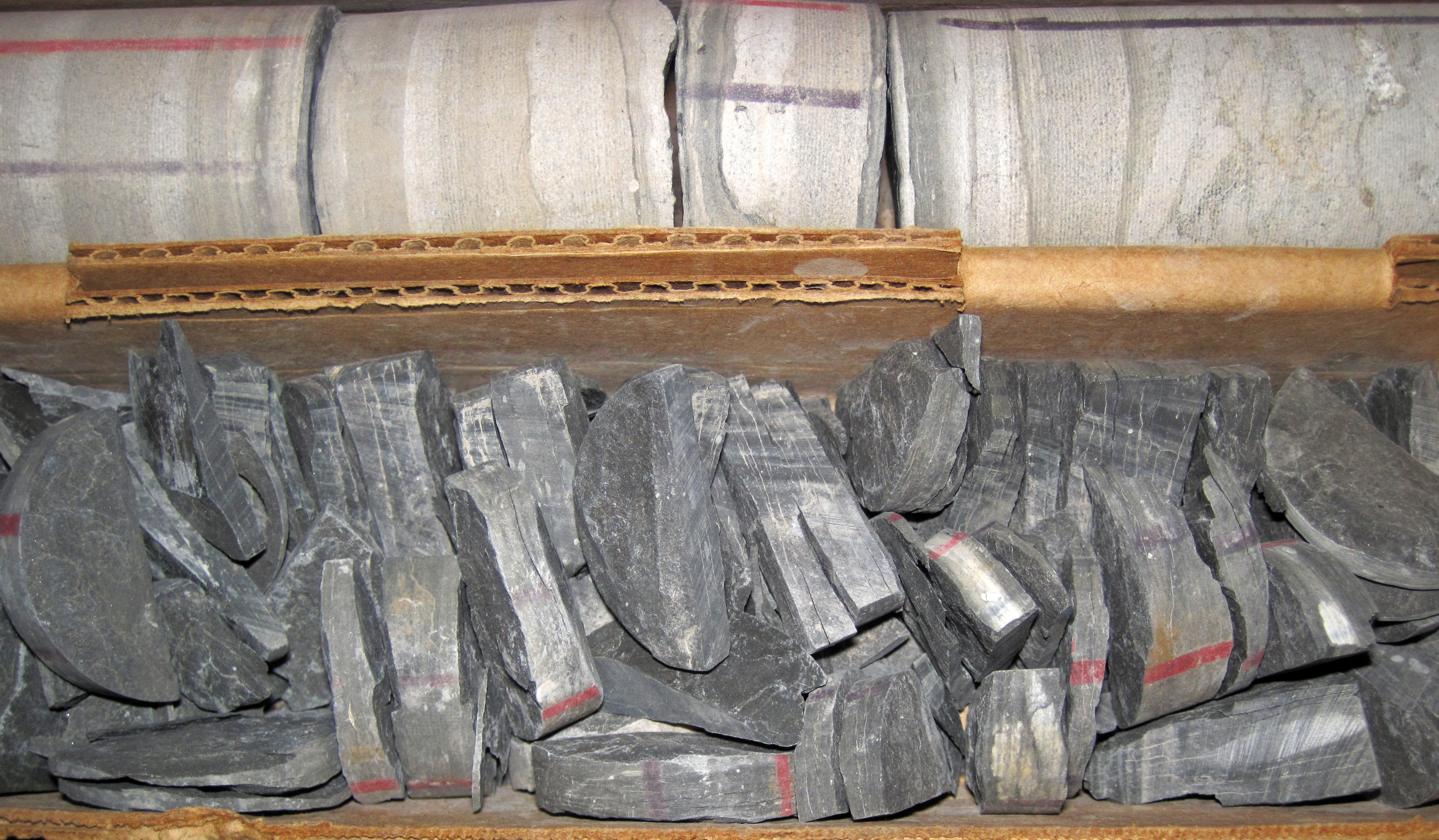 This is part of a continuously-cored section of Cambrian rocks from southwestern Ohio's deep subsurface. The Ohio Geological Survey drilled this core from 1987 to 1989 in northeastern Warren County, Ohio. It was intended to be a stratigraphic reference section from the Upper Ordovician to Precambrian basement rocks. Instead of encountering igneous or metamorphic rocks below the Cambrian sedimentary cover, the core unexpectedly penetrated a thick, late Precambrian-aged sedimentary succession, which has been interpreted as a rift-basin fill. The rift fill sedimentary rocks were a new stratigraphic formation now called the Middle Run Formation. The rocks seen here are part of the Eau Claire Formation, a heterolithic unit consisting of mixed siliciclastics and carbonate rocks. The dark gray rocks seen above are shales. In eastern Ohio's subsurface, this shale-rich interval is known as the Conasauga Formation. Trilobite fossils have been retrieved from the Eau Claire Formation in the Warren County core - they allow biostratigraphic dating to the late Middle Cambrian-early Late Cambrian. Stratigraphy: Eau Claire Formation, upper Middle Cambrian to lower Upper Cambrian Locality: 2790 feet to 2800 feet interval (= feet below the surface well site), Ohio Division of Geological Survey core 2627, American Aggregates Corporation limestone quarry (now flooded), just northeast of the town of Lytle, northwestern Wayne Township, northeastern Warren County, southwestern Ohio, USA Core-specific info. from: Shrake (1991) - The Middle Run Formation: a subsurface stratigraphic unit in southwestern Ohio. Ohio Journal of Science 91: 49-55.